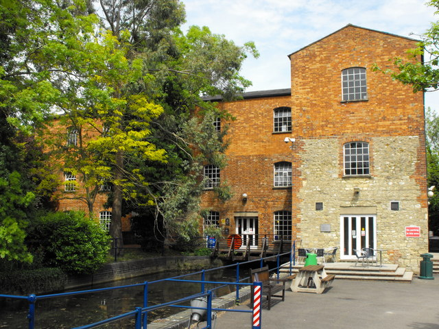 Town Mill, Buckingham This large mill has been converted by Buckingham University for use as student amenities. The mill is adjacent to the Chandos park west of the town centre.